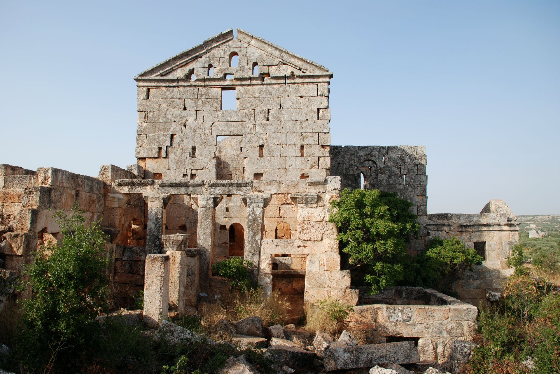 Al-Bara, dead city in Syria, convent south of city